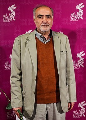 Shayesteh Irani